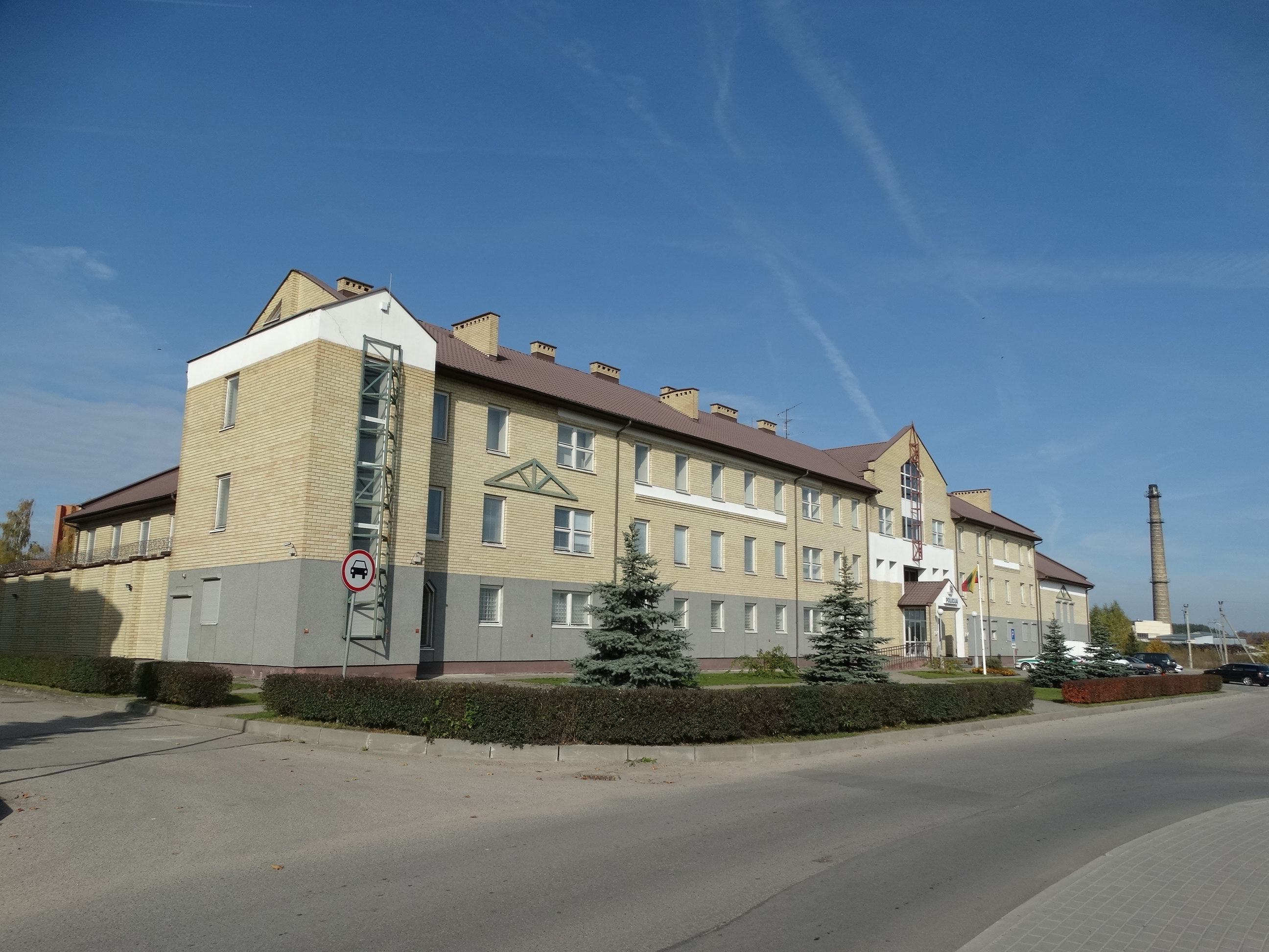 Police, Lazdijai, Lithuania